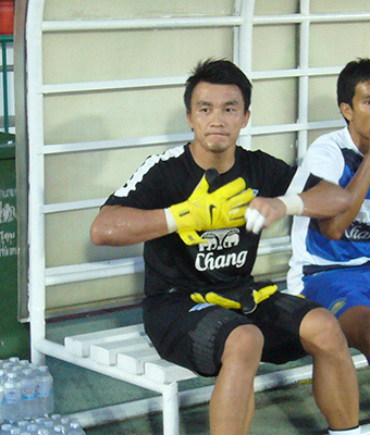 Sinthaveechai Hathairattanakool